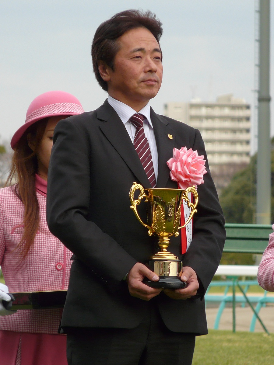 Toru-Miya20110105